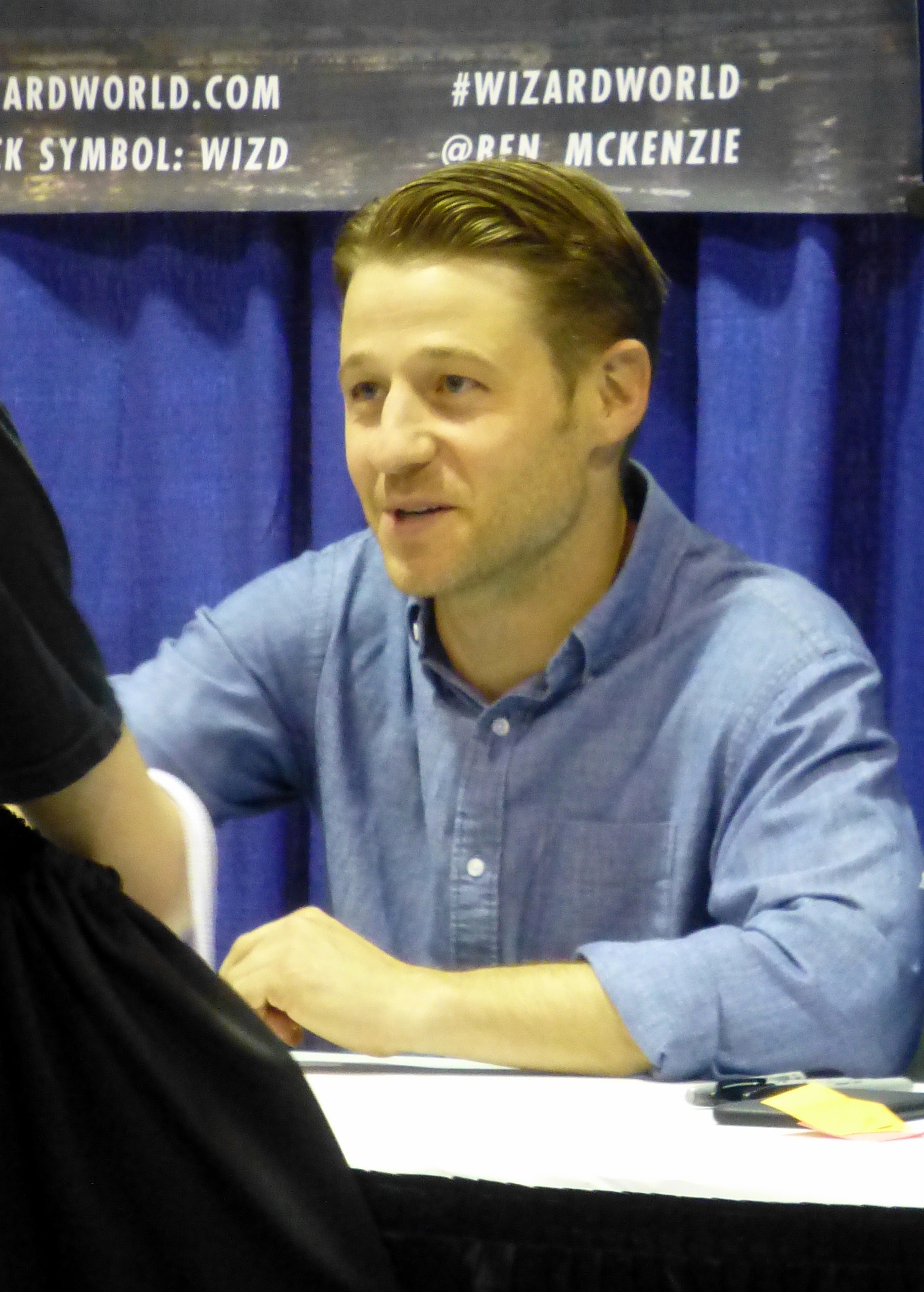 Ben McKenzie 01 Guests at the 2015 Wizard World Chicago.